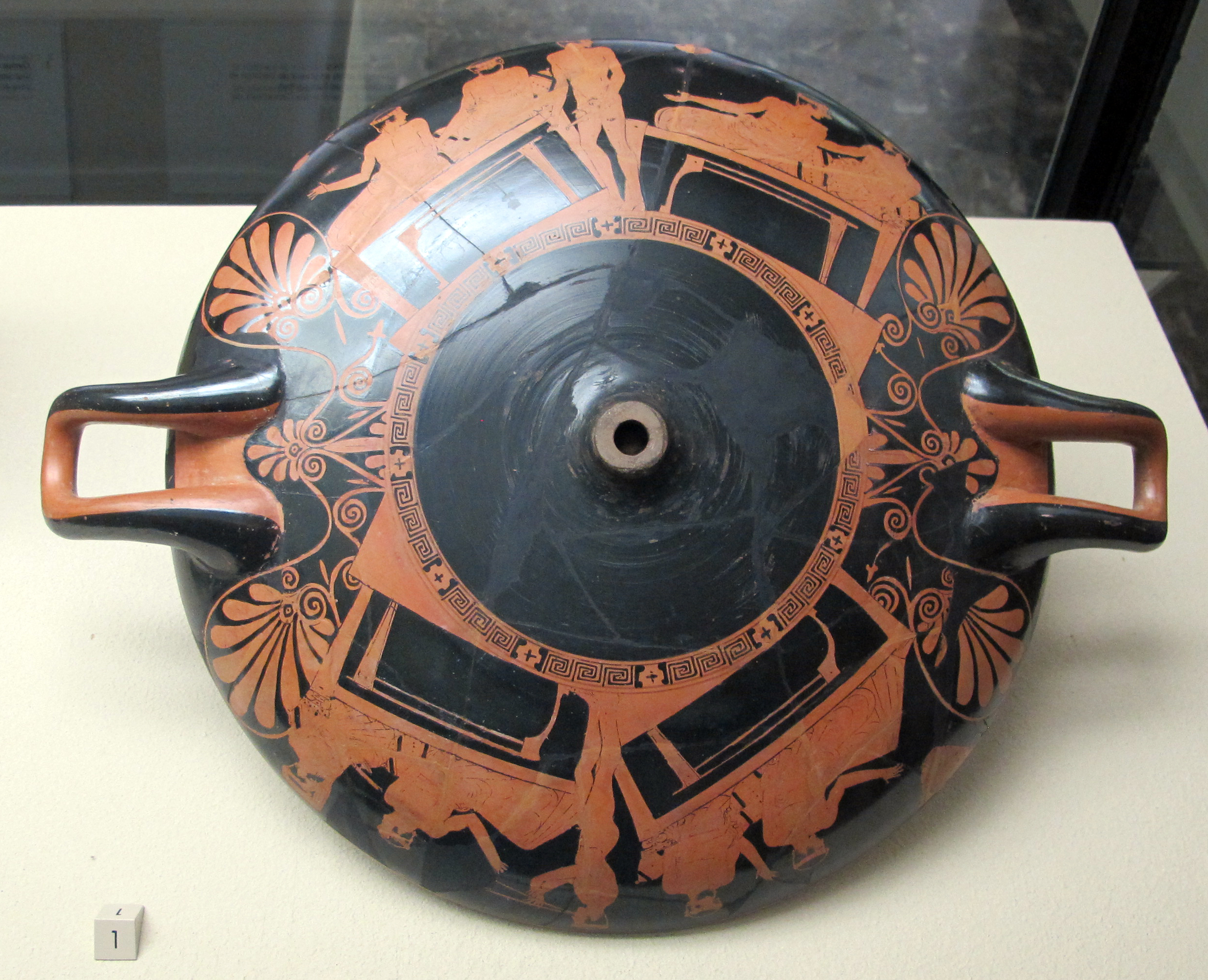 Greek antiquities in the Musée d'art et d'histoire de Genève